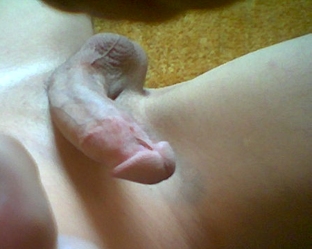 Abnormal penis deviation, strongly curved penis, bent penis